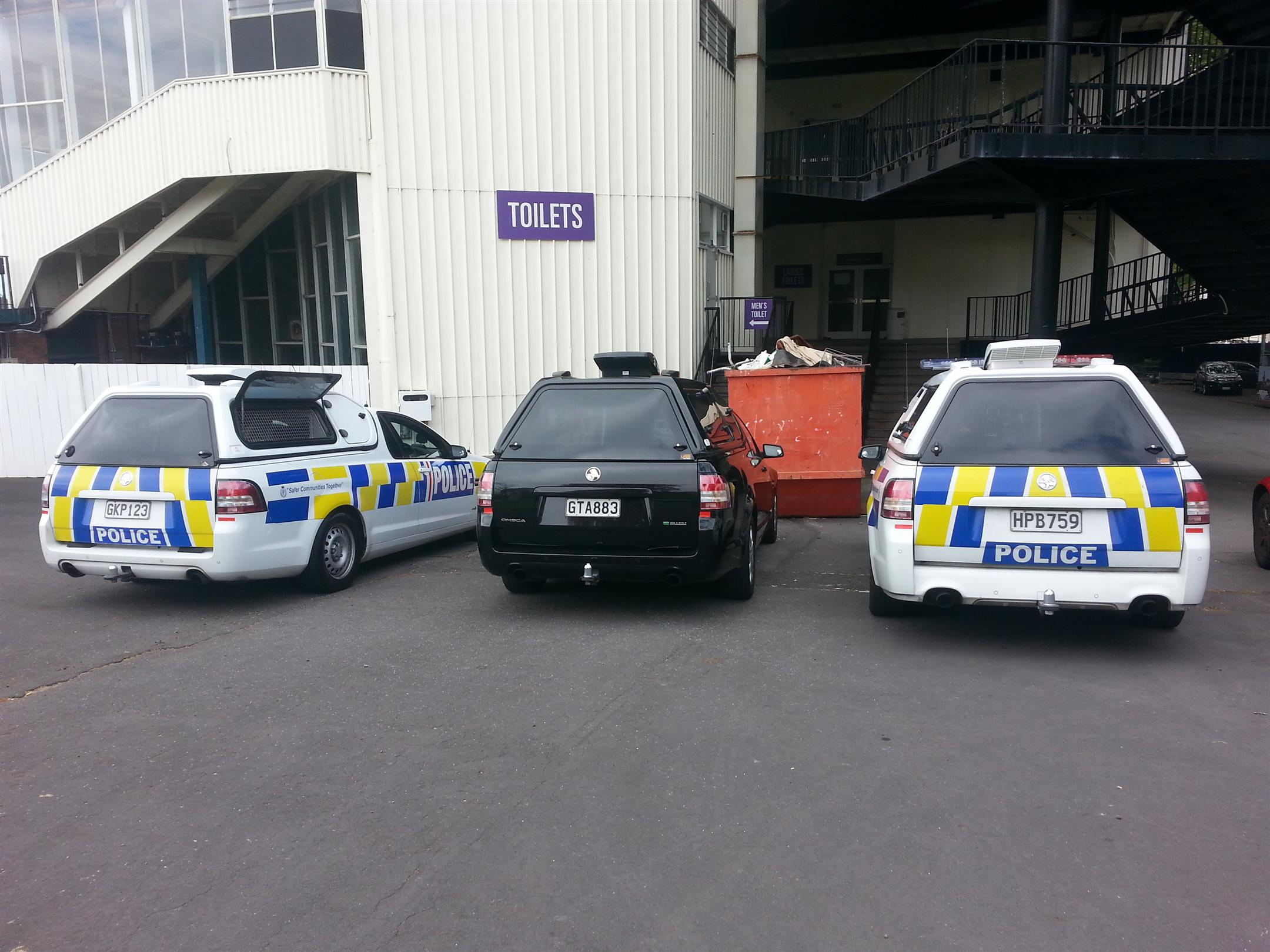 Holden Commodore VE/VF Evoke Stationwagon/Utility currently being used by the New Zealand Police for Delta (Dog) Patrols. It also replaced the VE Commodore Delta Units slowly since 2014 providing more engine capacity andmore modern specifications than the VE. The VE Commodore is now being phased out.